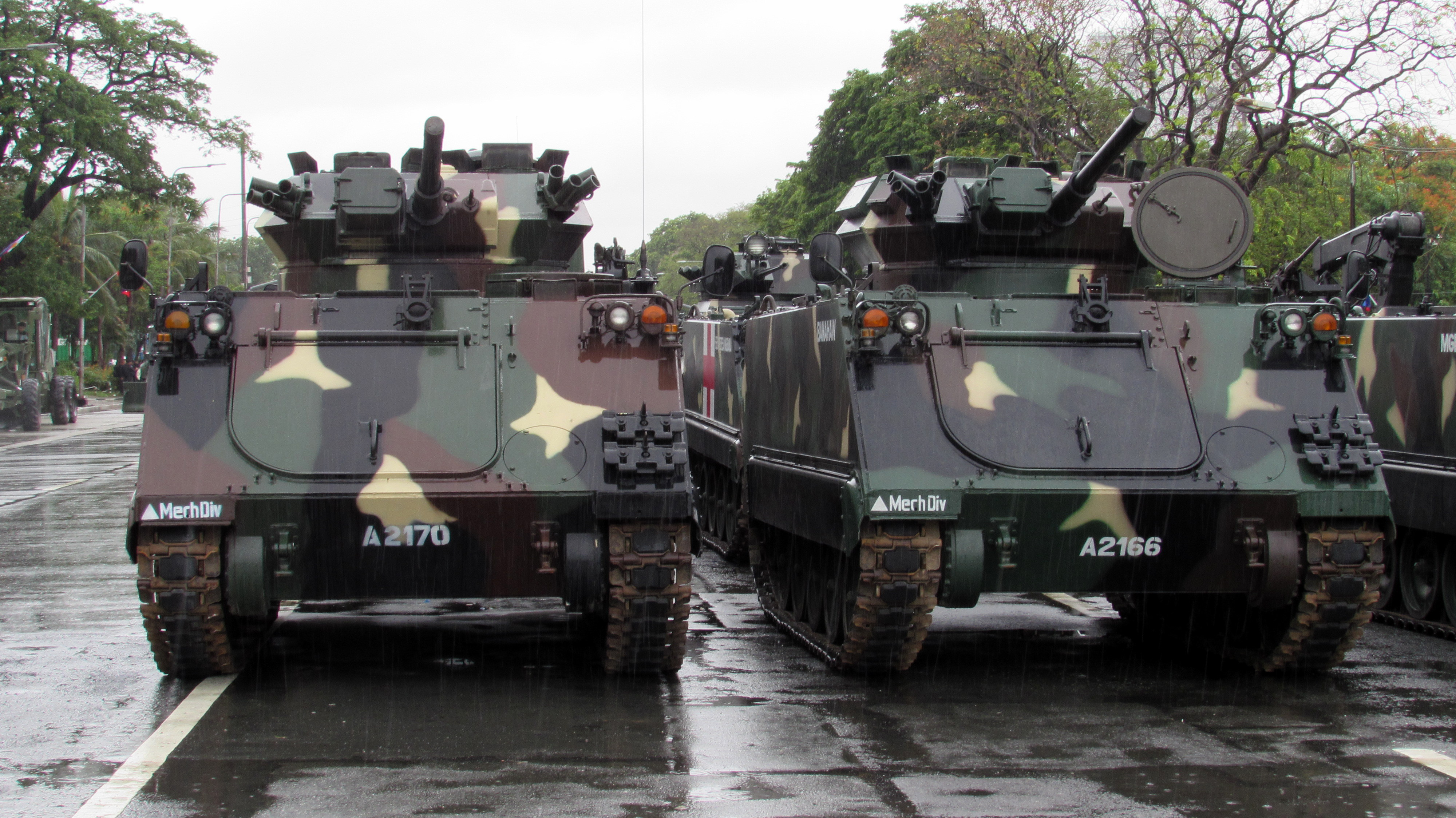 Front view of two M-113 vehicles of the Philippine Army (PA) with a turret taken from an FV-101 Scorpion vehicle. Photo taken during the 2018 Kalayaan Parade in Luneta.